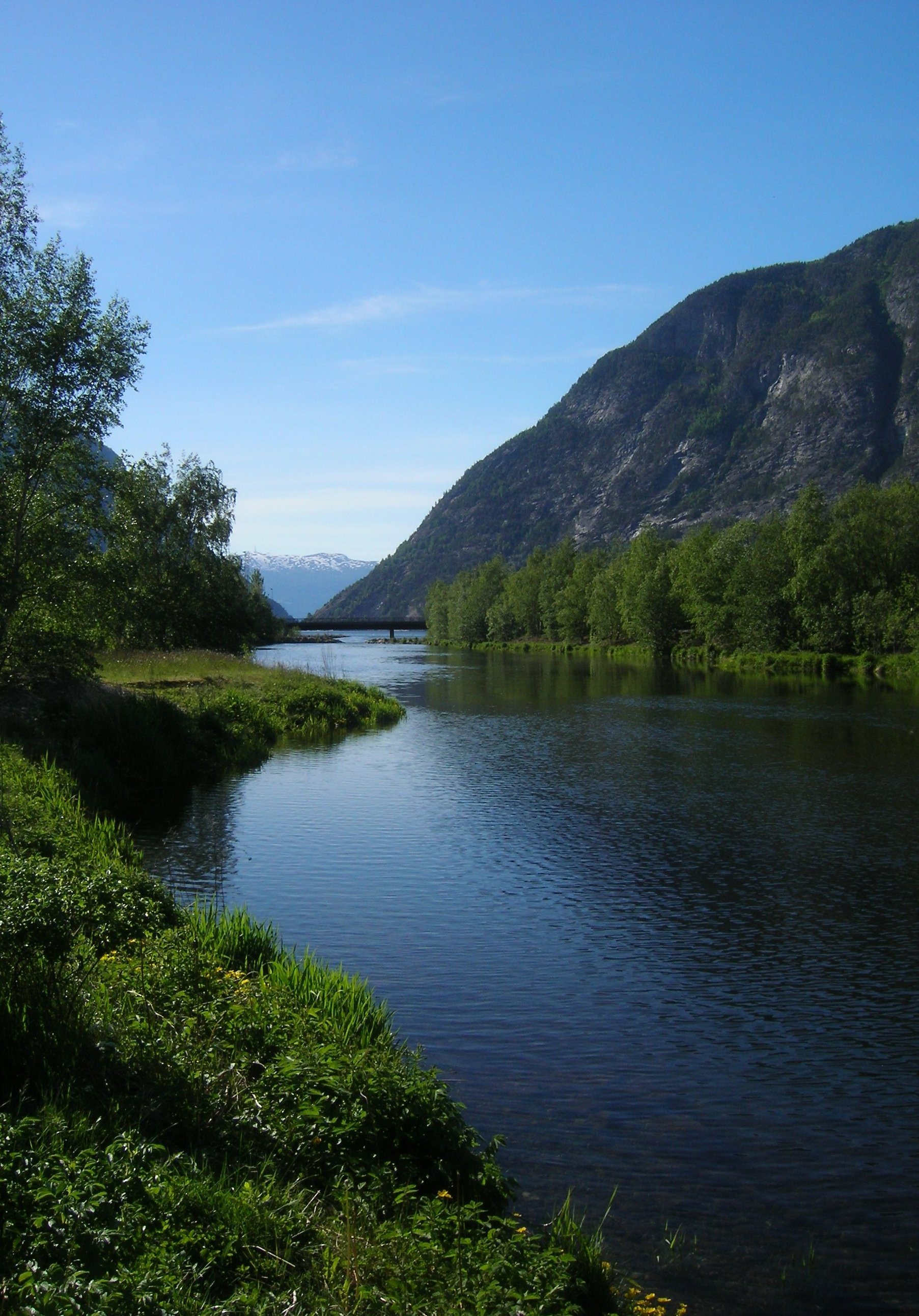 Lærdal near "Laksen"